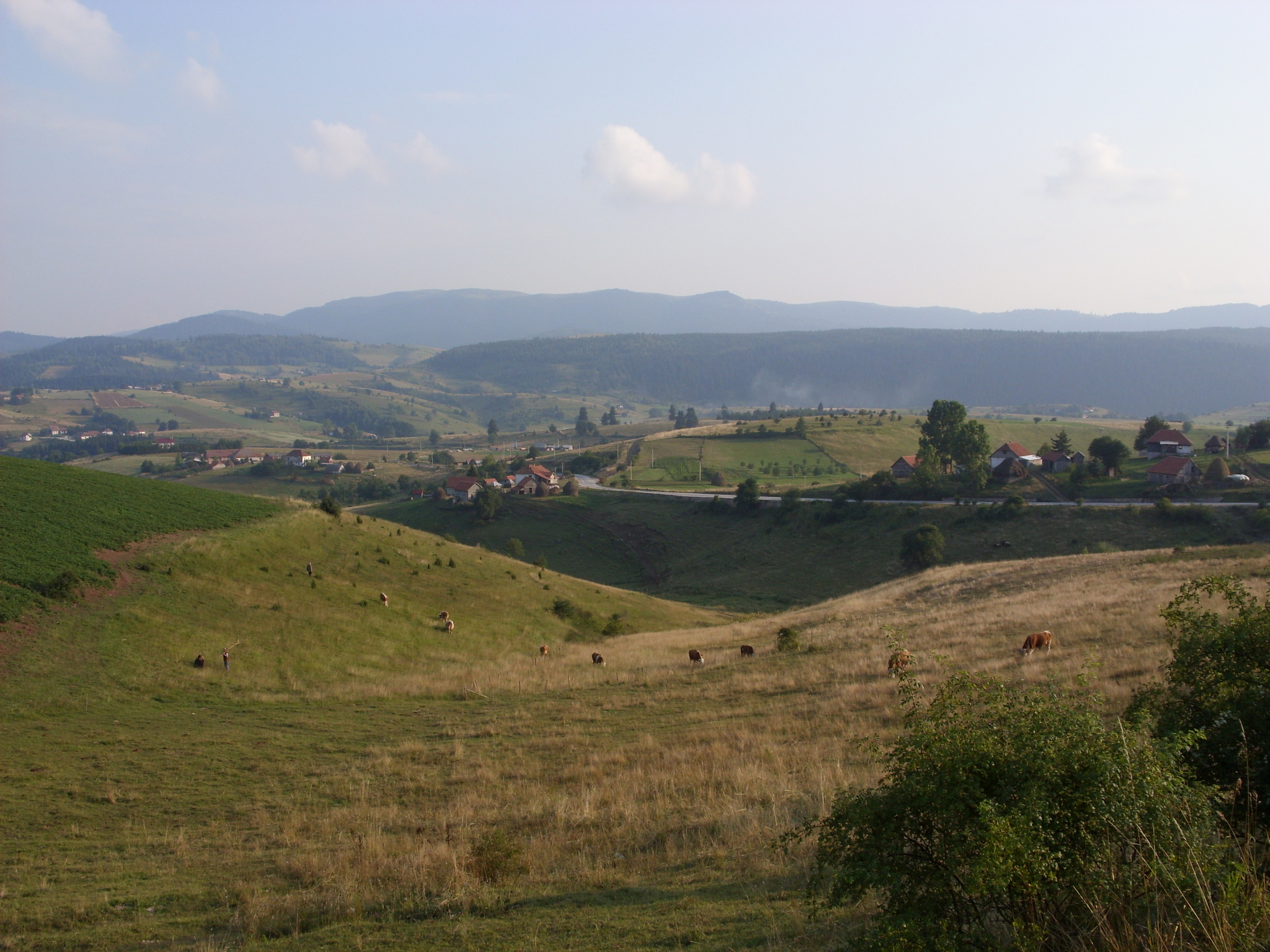 Scenery between Nova Varoš and Sjenica in the Sandzak region, Southern Serbia. Hornjoserbsce: Krajna mjez městomaj Nova Varoš a Sjenica w Sandźaku, Južna Serbiska.